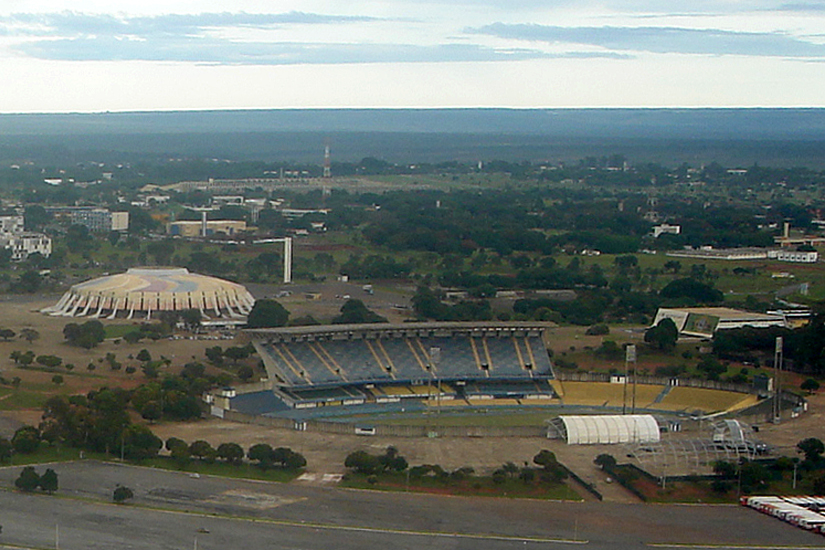 Aerial view of Old Estádio Mané Garrincha (right) and Ginásio Nilson Nelson (left), Plano Piloto, Brasilia.